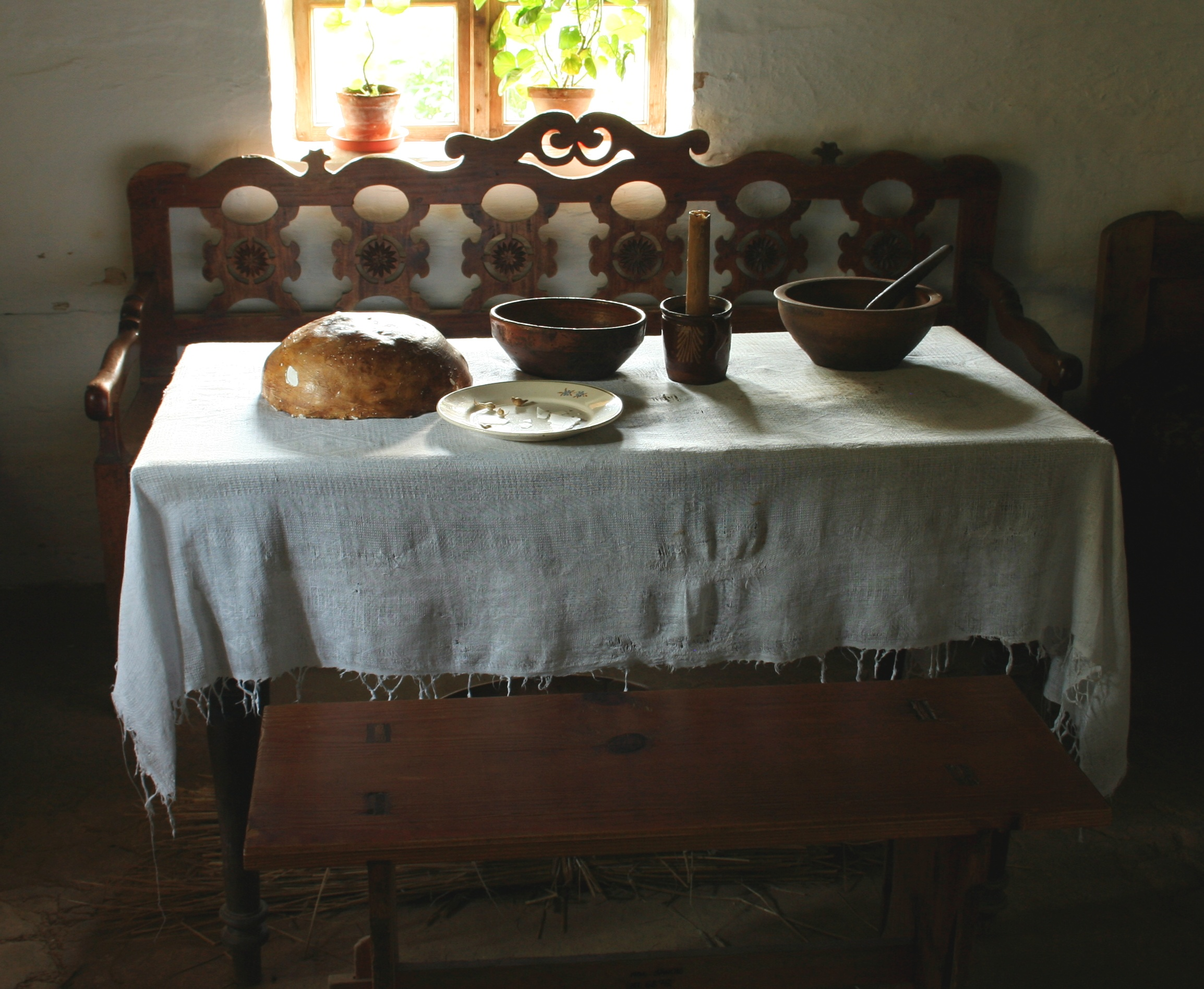 The table of Christmas in old cottage, Skansen in Sanok, Poland